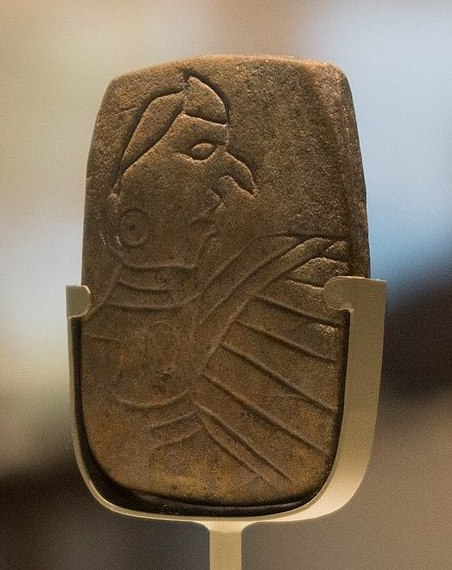 This file was derived from: Birdman Tablet.jpg